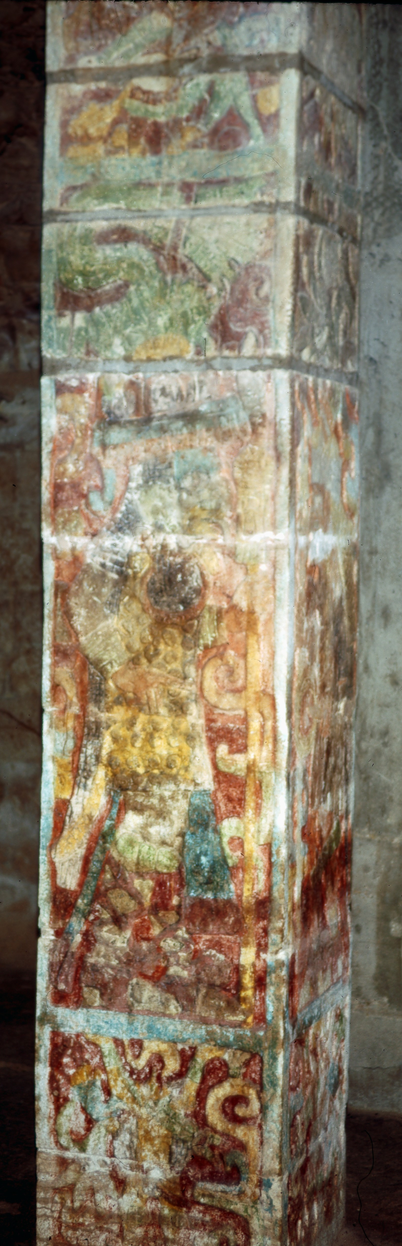 Chichen Itza, Yucatan, Mexico: Warrior Tempel sub, pillar